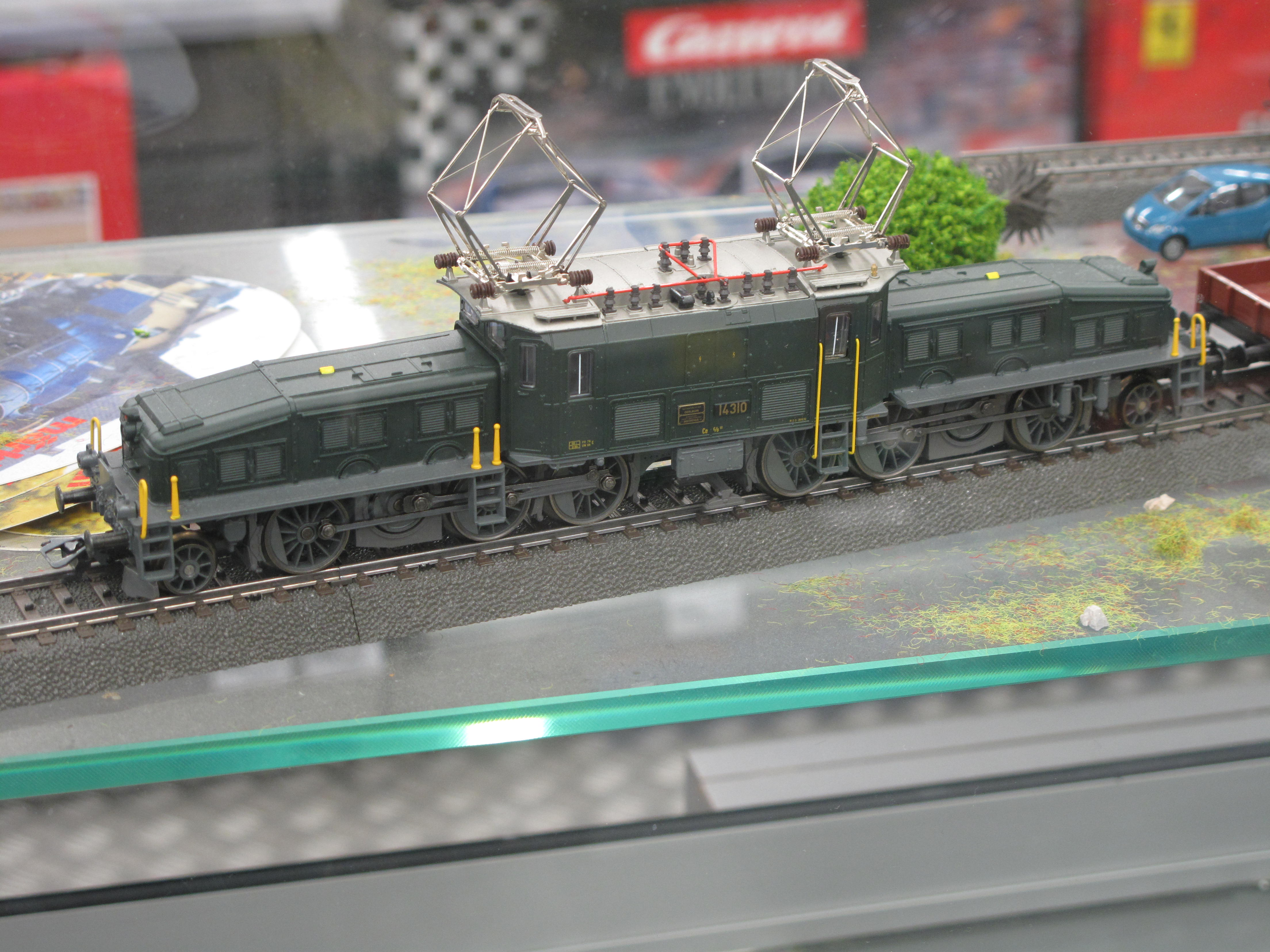 Model of the swiss locomotive SBB Ce 6/8 Krokodil